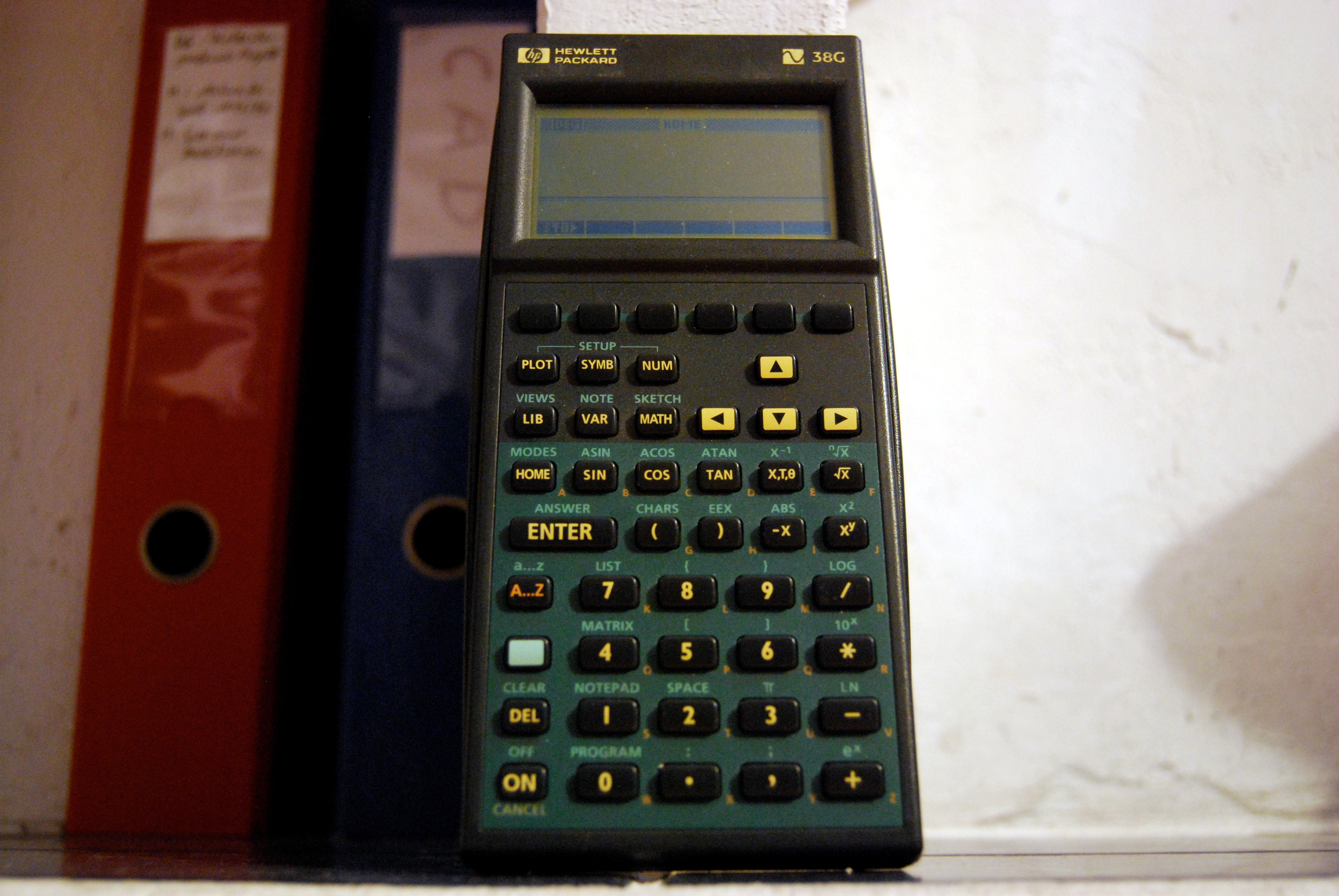 My old calculator hp38g